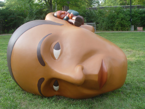 Sculpture created by Tom Nussbaum in 2009 called "Listen". Now in permanent collection of the Montclair Art Museum.